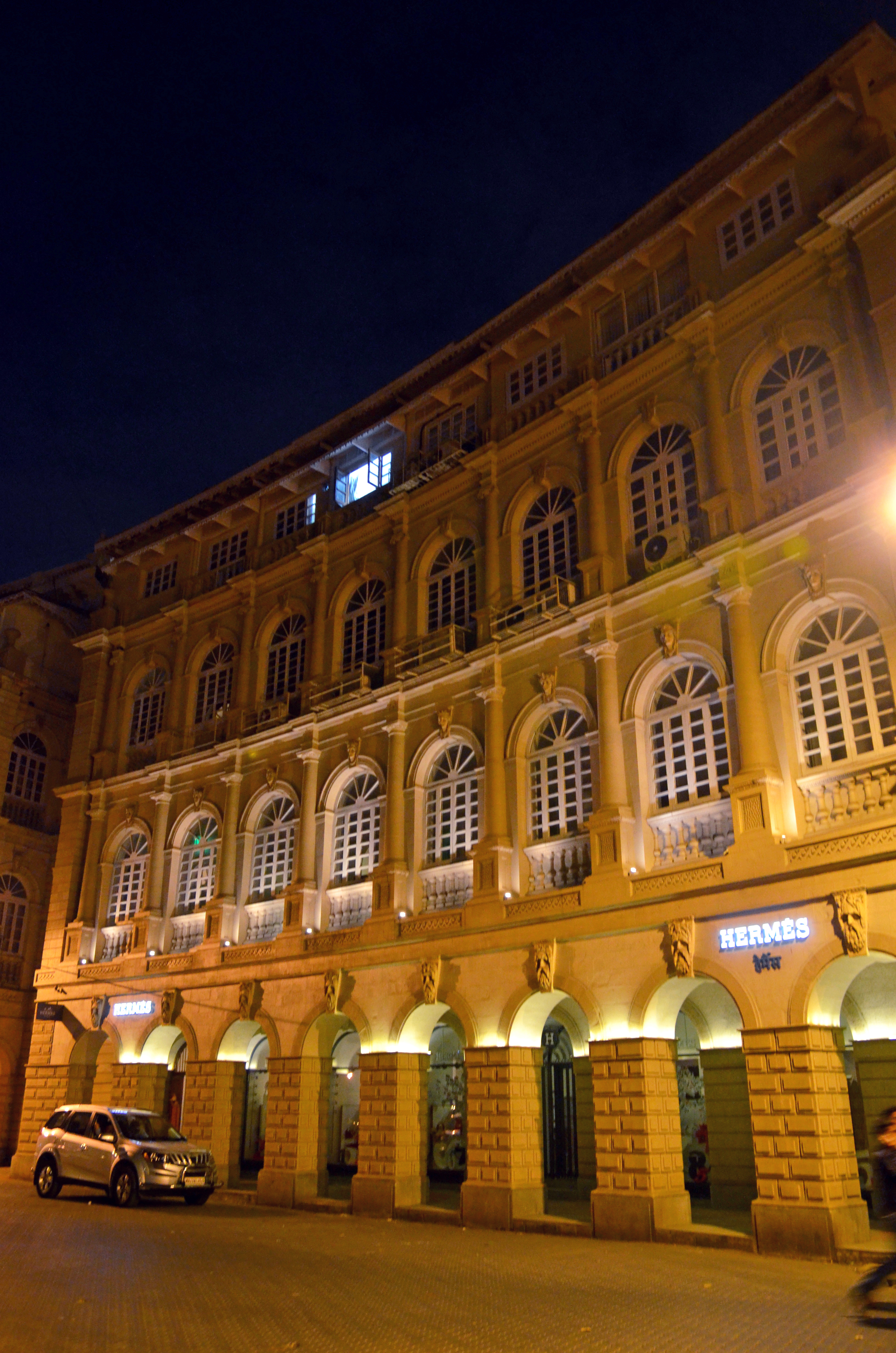 Hermès, Elphinston Circle, Mumbai.